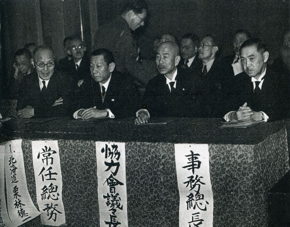 Imperial Rule Assistance Association's Cadre